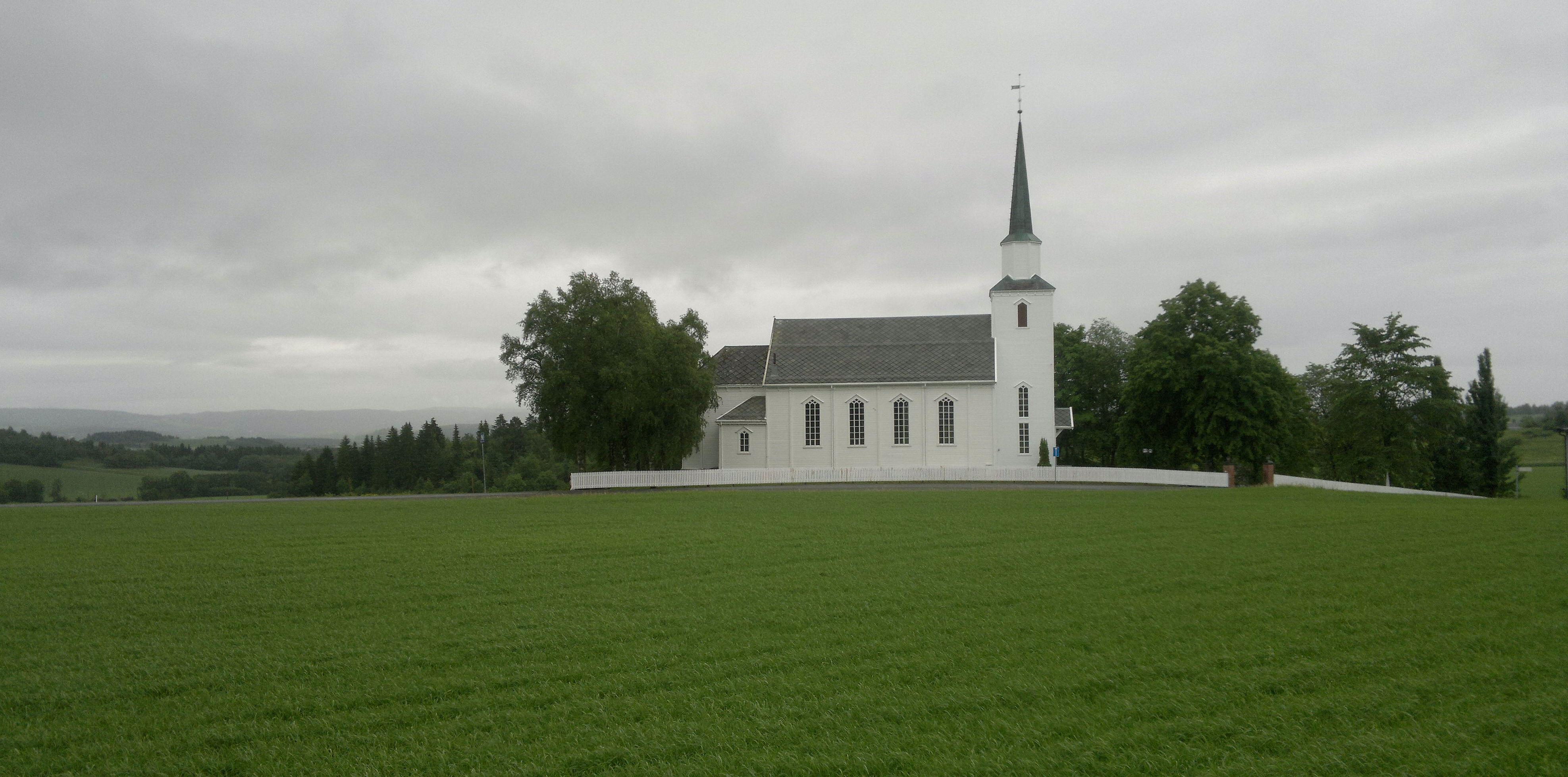 Heggstad kirke (church) in Inderøy, Norway. Sent from my Nokia. I'm on: @heidenstrom (Twitter) (N) (UK), (photos) (mobile photos) - or I'm off... ;-)